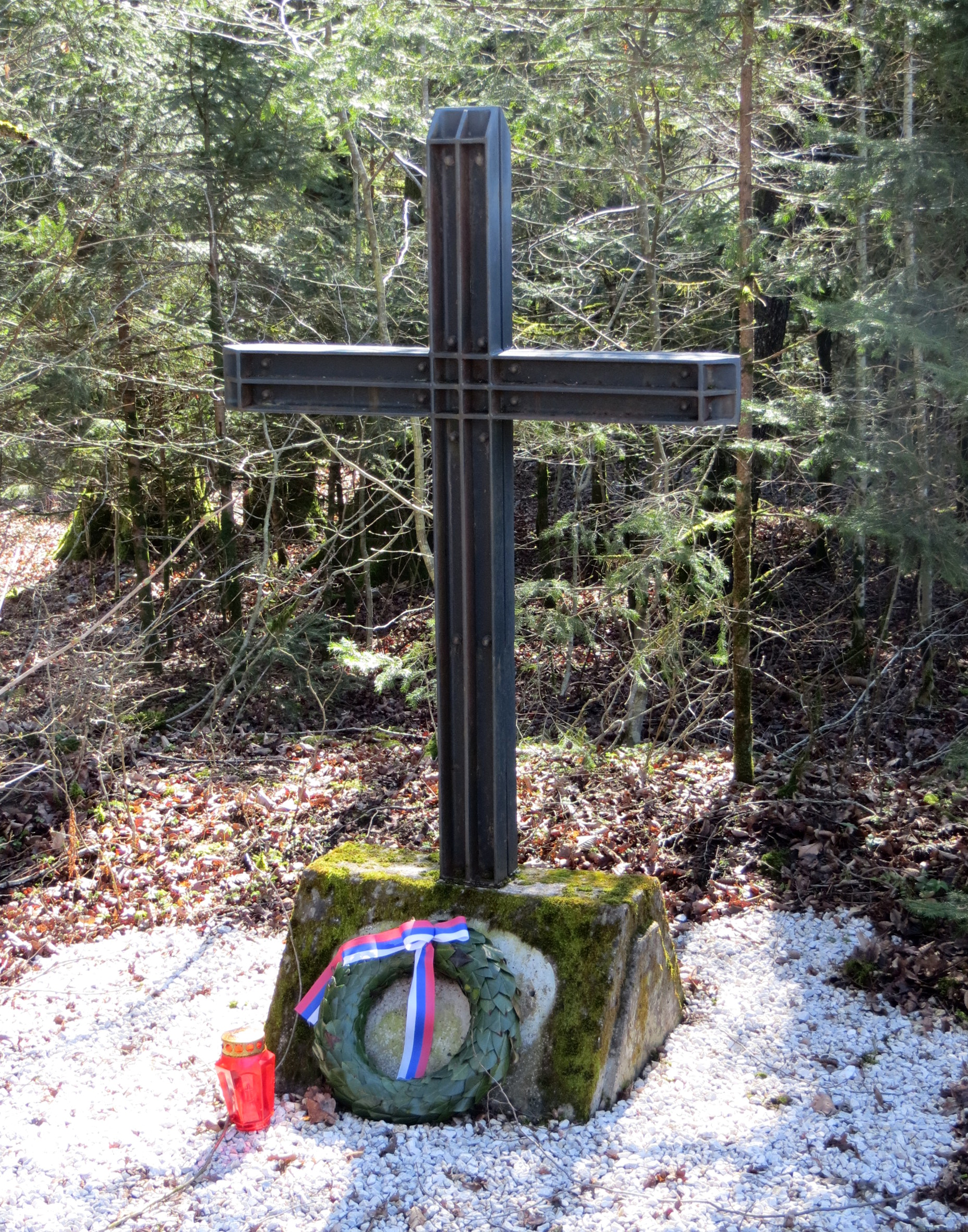 Smovc Mass Grave (Sln. Grobišče Smovc) in Žeje pri Komendi, Municipality of Komenda, Slovenia